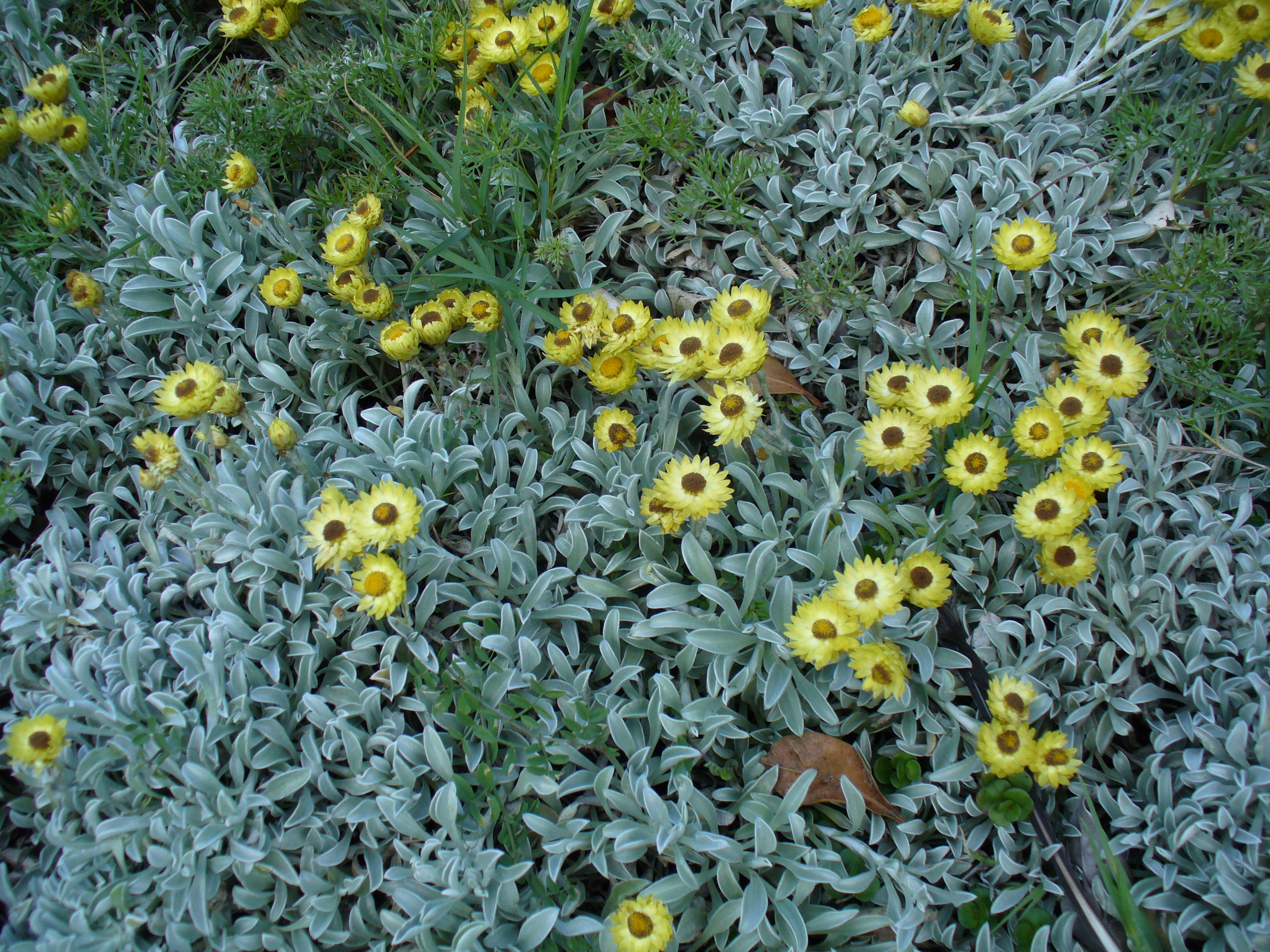 sewejaartjie, Kirstenbosch Gardens Cape Town